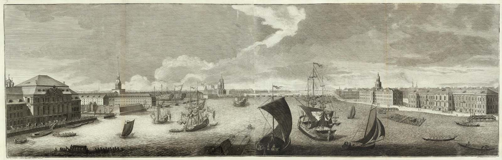 Engraving of Neva River, St. Petersburg, 1761 by Valeriani, Joseph and Makhaev, Mikhail Ivanovich, public domain, 1600x510